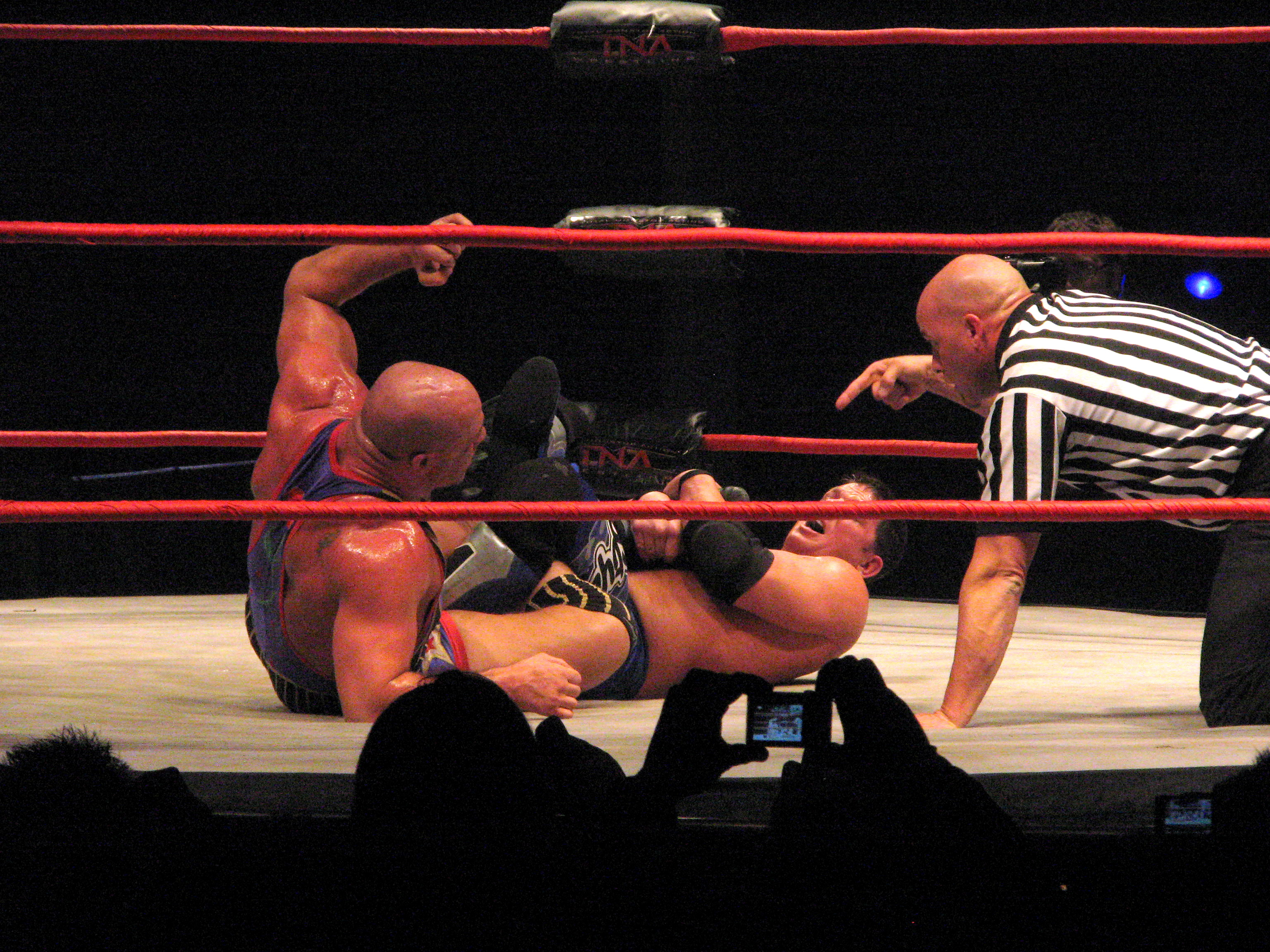 AJ Styles perfomring a Figure 4 Leglock on Kurt Angle.